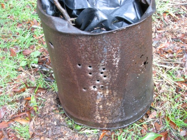 A target used for "plinking" with a rifle at a campsite